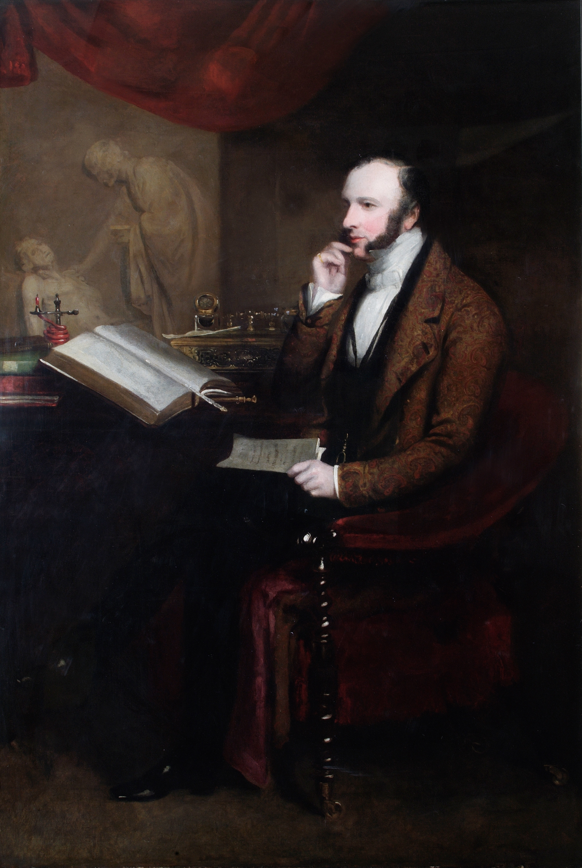 Portrait of William Marsden (1796-1867)